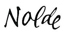 autograph of the painter Emil Nolde